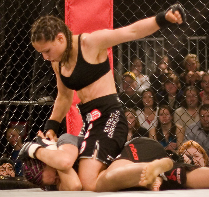 Two women fighting martial art